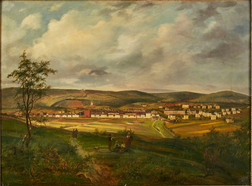 View of Wiesbaden 1856